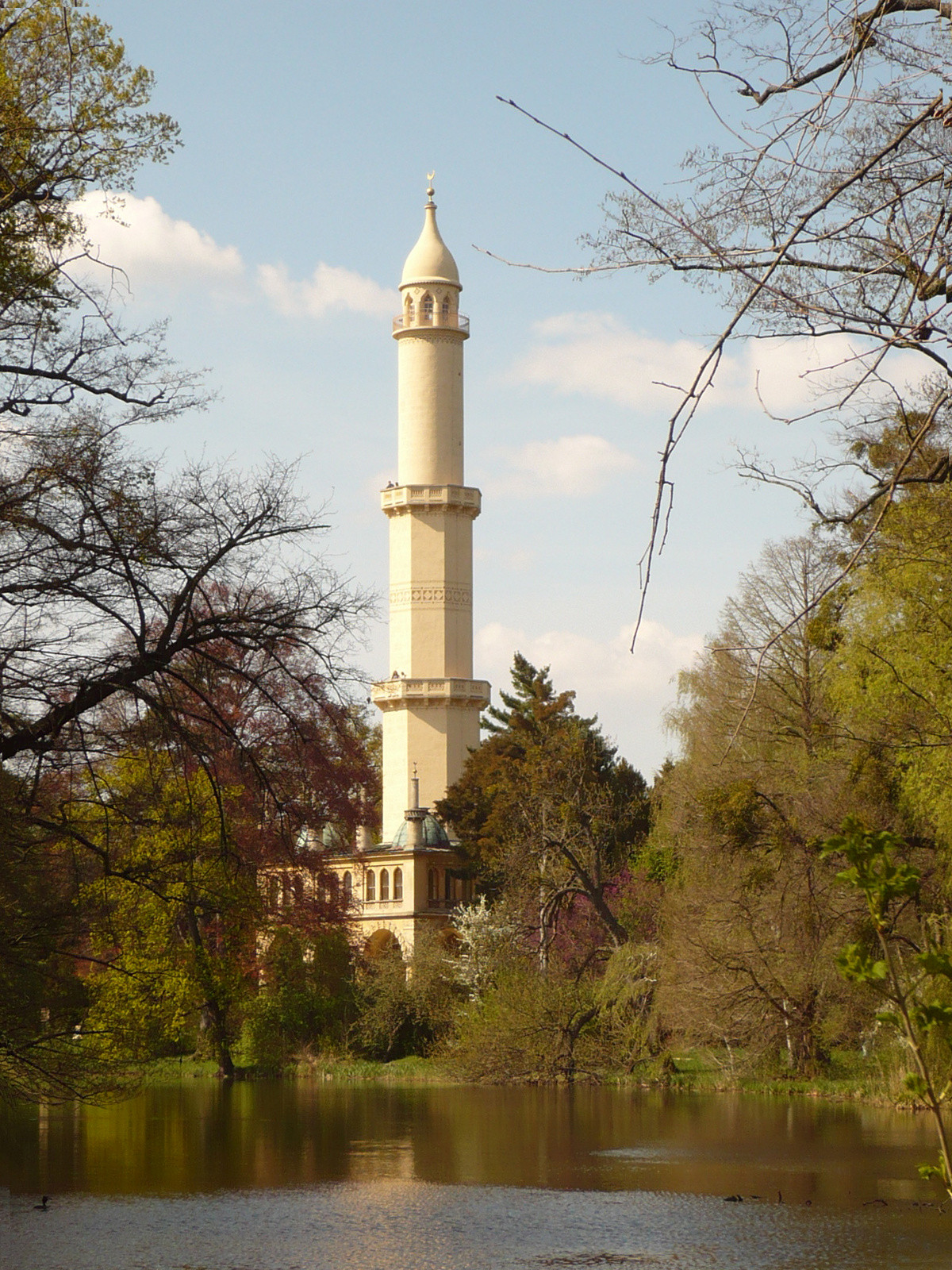 Minaret in Lednice - through the trees, South Moravia, Czech Republic